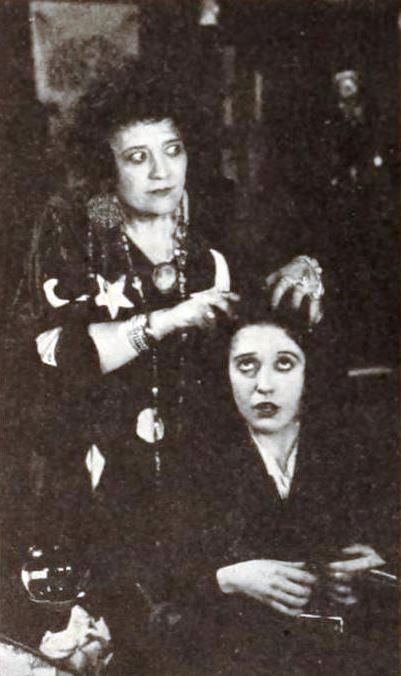 Still from the American comedy film What Happened to Rosa (1920) with Eugenie Besserer and Mabel Normand, on page 52 of the November 13, 1920 Exhibitors Herald.